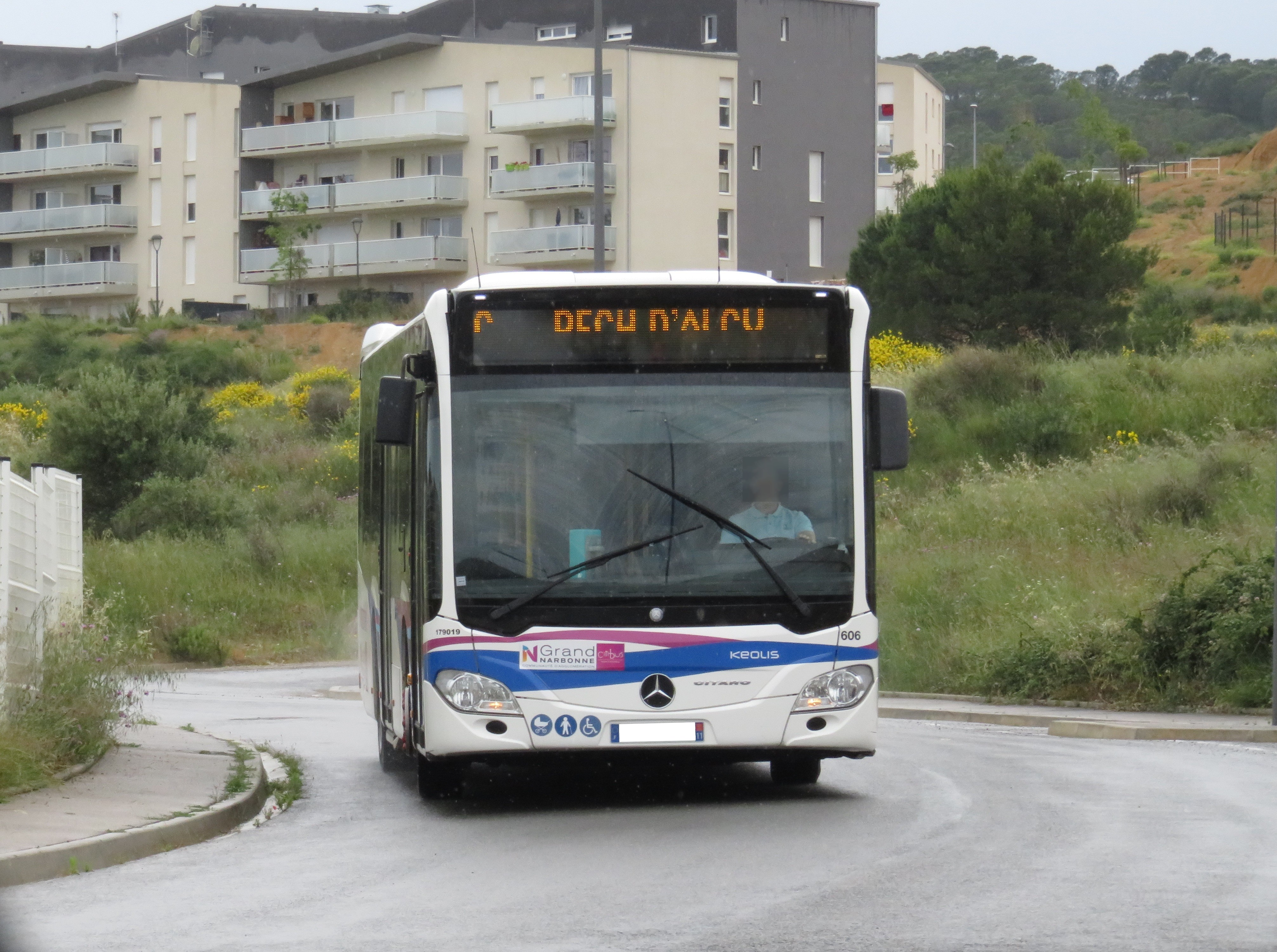 A Mercedes-Benz Citaro K C2 (n°179019 of Keolis Narbonne), carrying out the line C of the bus network Citibus — Les Halles, Narbonne↔Pech d’Alcy, Narbonne — and running in the Rue Nicolas Leblanc (Narbonne, France) on June 7, 2018.